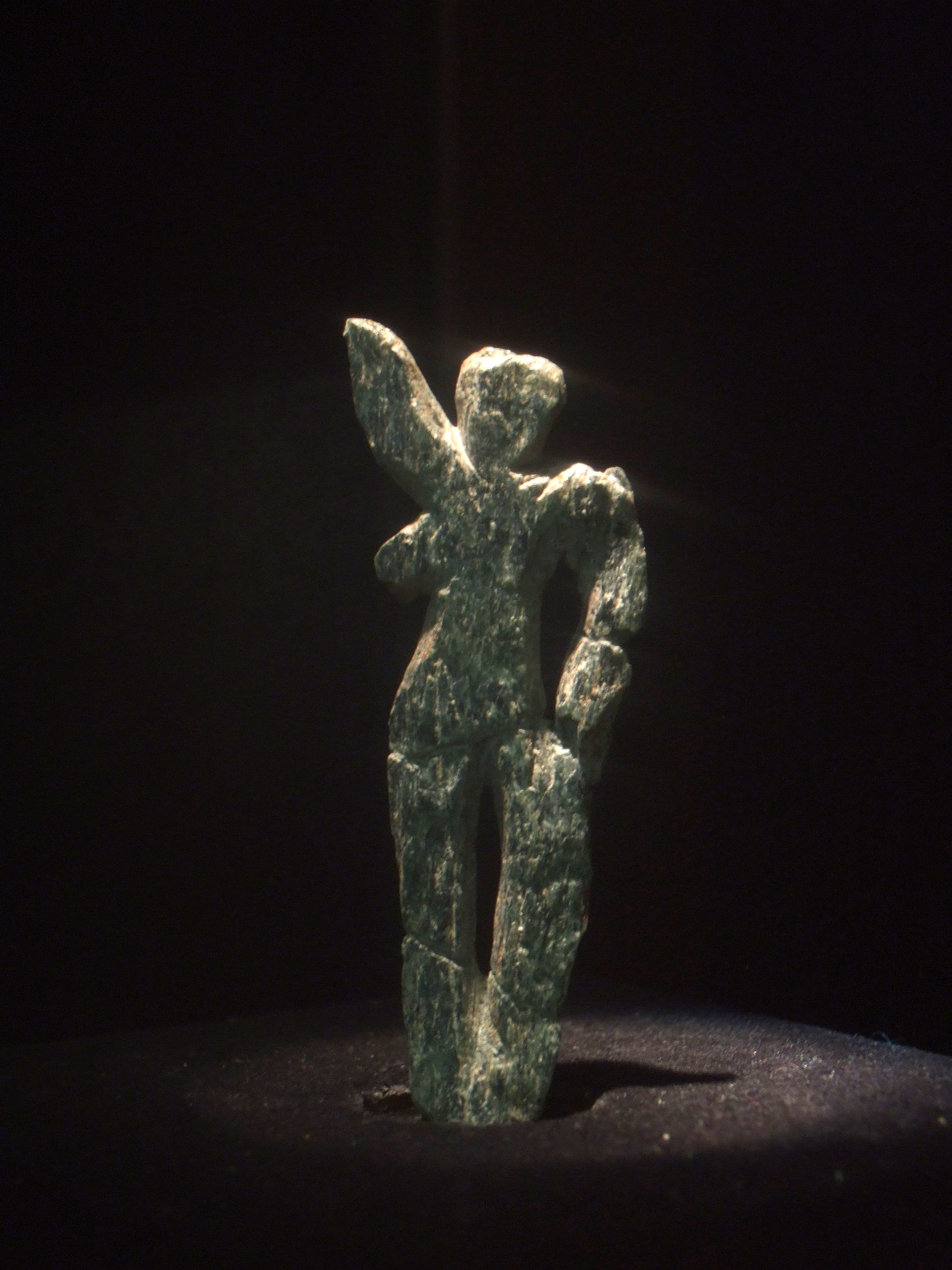 Venus of Galgenberg made of green serpentine 30,000 years ago.